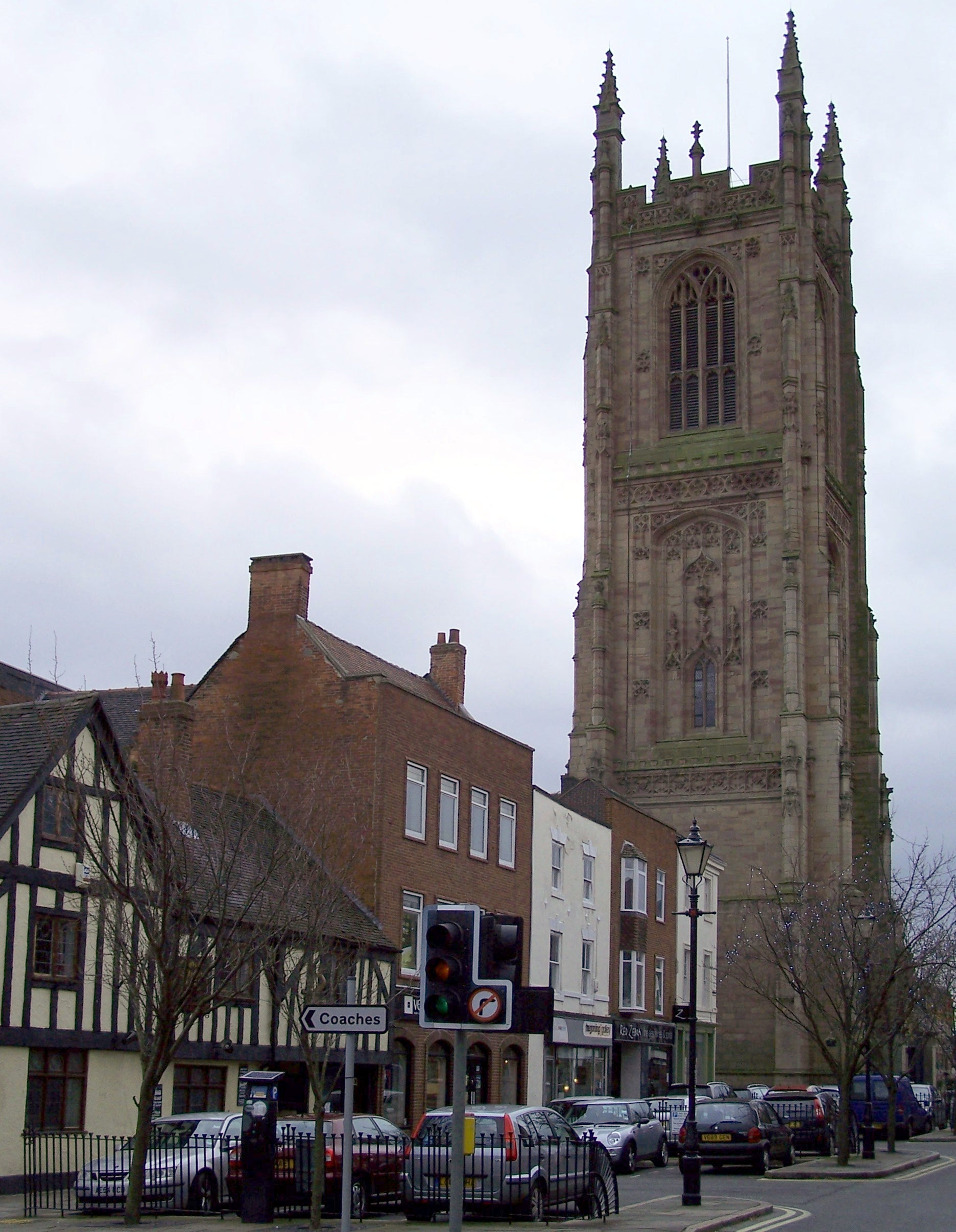 Derby Cathedral with Ye Old Dolphin in the foreground.